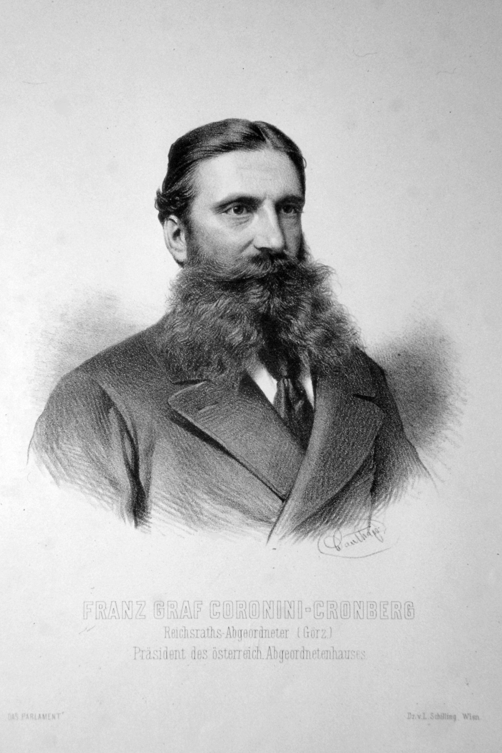 Count Franz Coronini-Cronberg (1830-1901), Austrian statesman Lithograph by Adolf Dauthage, ca. 1880 From "Das Parlament", published by A. Eckstein, Vienna